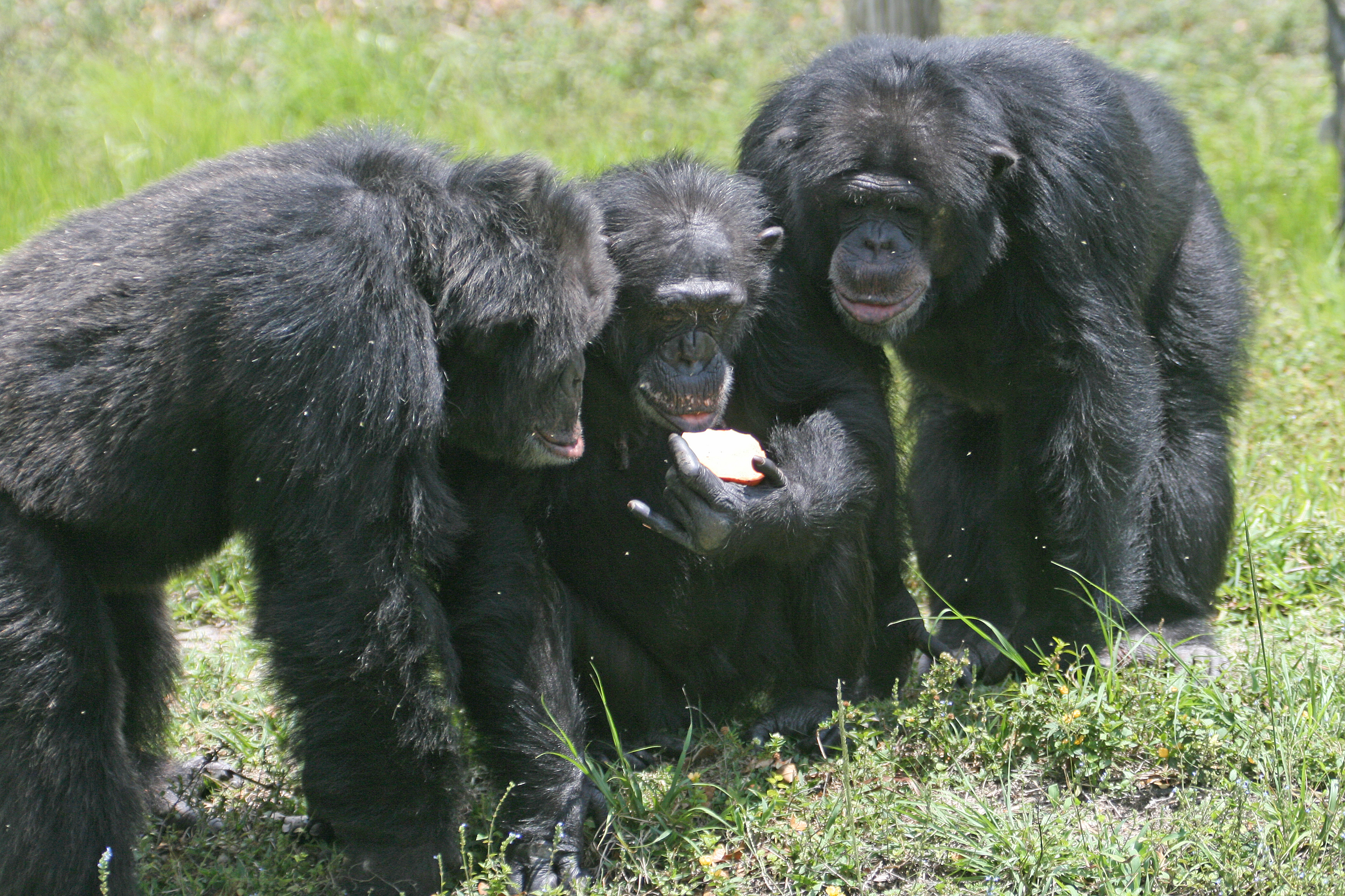 Three chimpanzees at Miami Metrozoo